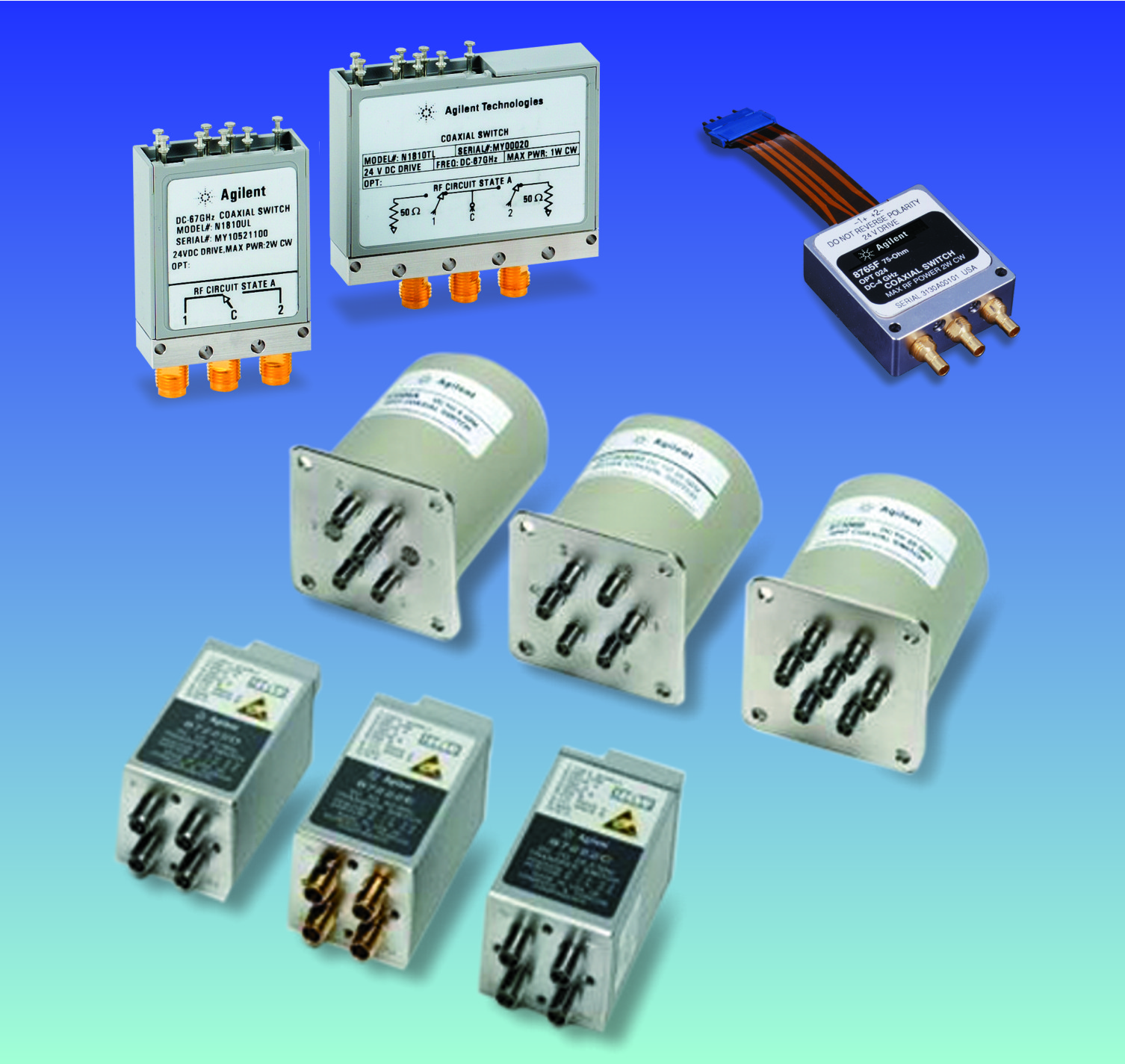 Agilent Electromechanical Switch Family